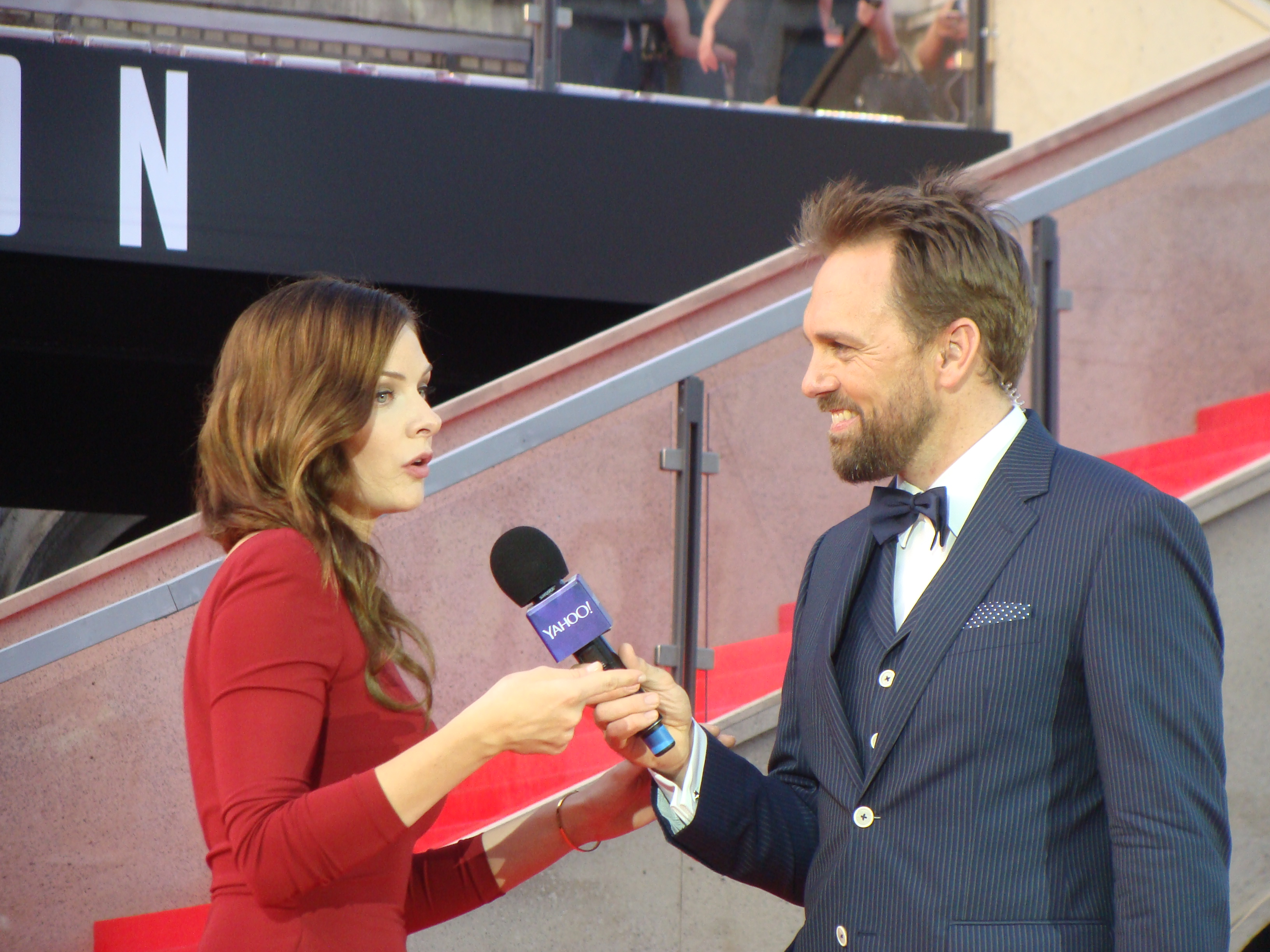 Rebecca Ferguson at the Mission: Impossible – Rogue Nation Global Premiere in Vienna, Austria. Vienna State Opera on July 23, 2015.